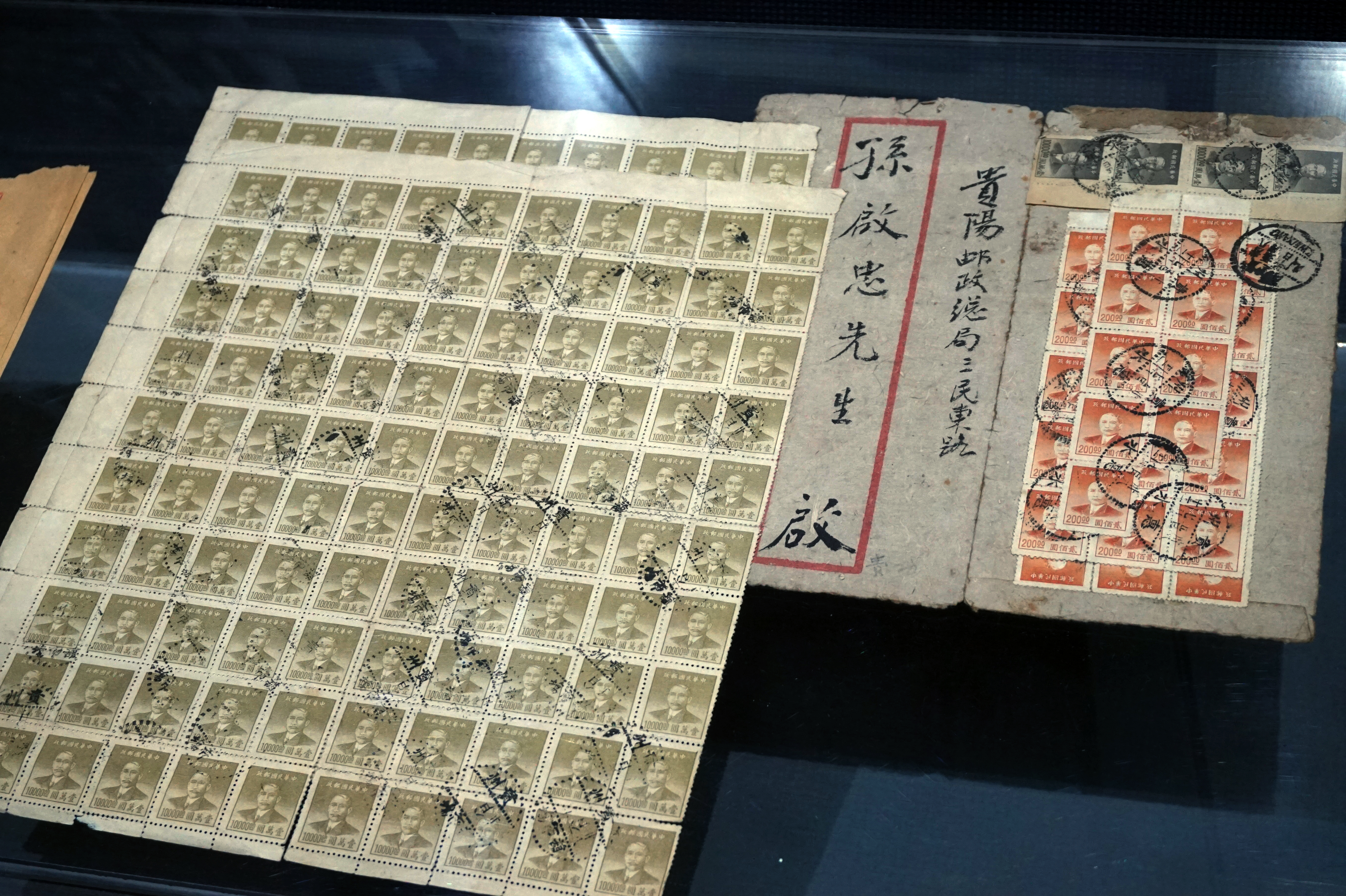 In the Chinese Civil War after 1945, the economy in the ROC areas collapsed because of hyperinflation. The Gold Yuan devaluated sharply in late 1948. The envelope was affixed to the stamps and a letter needed 243 stamps which costed 2,047,800 Yuan.